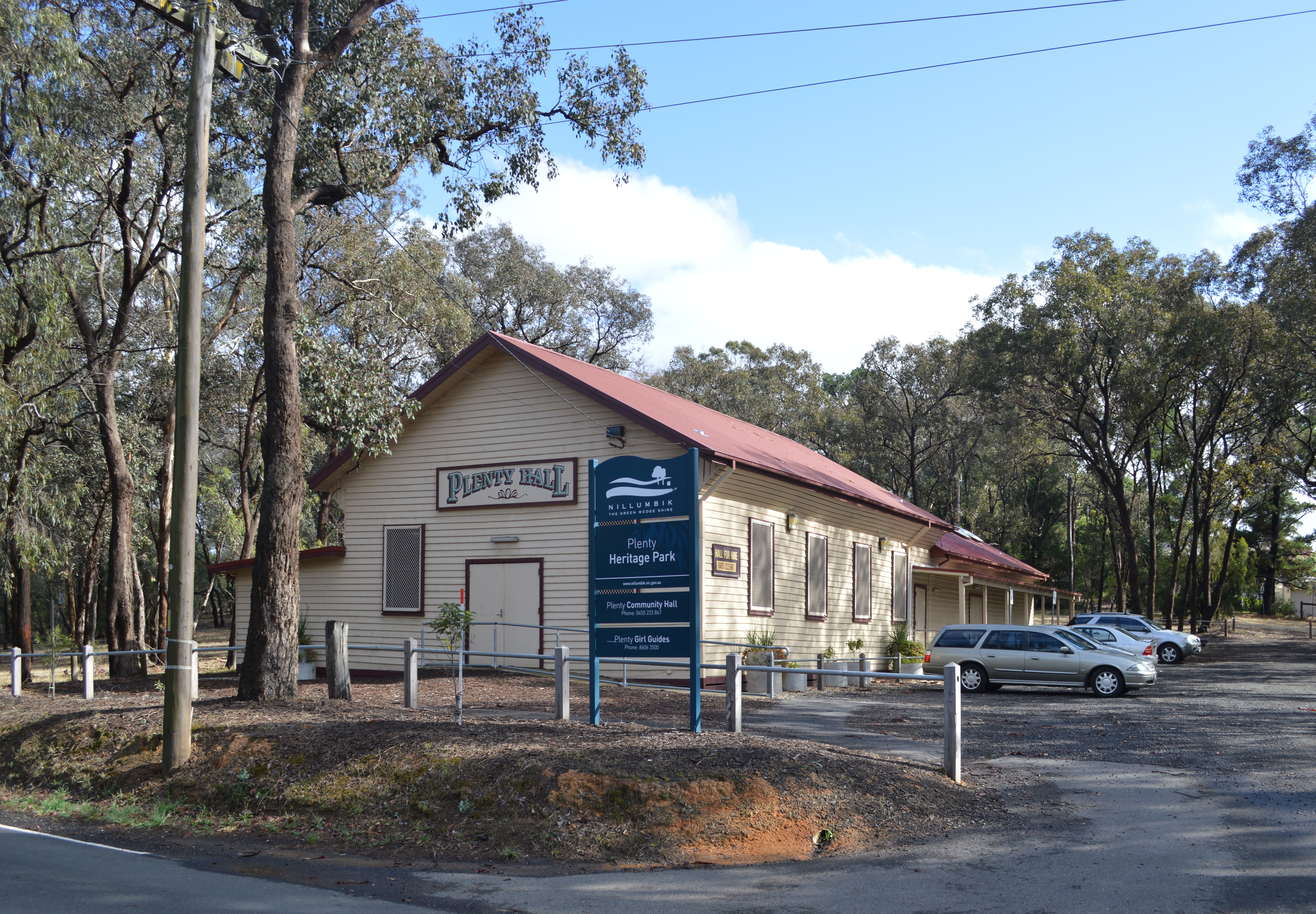 Public hall at Plenty, Victoria